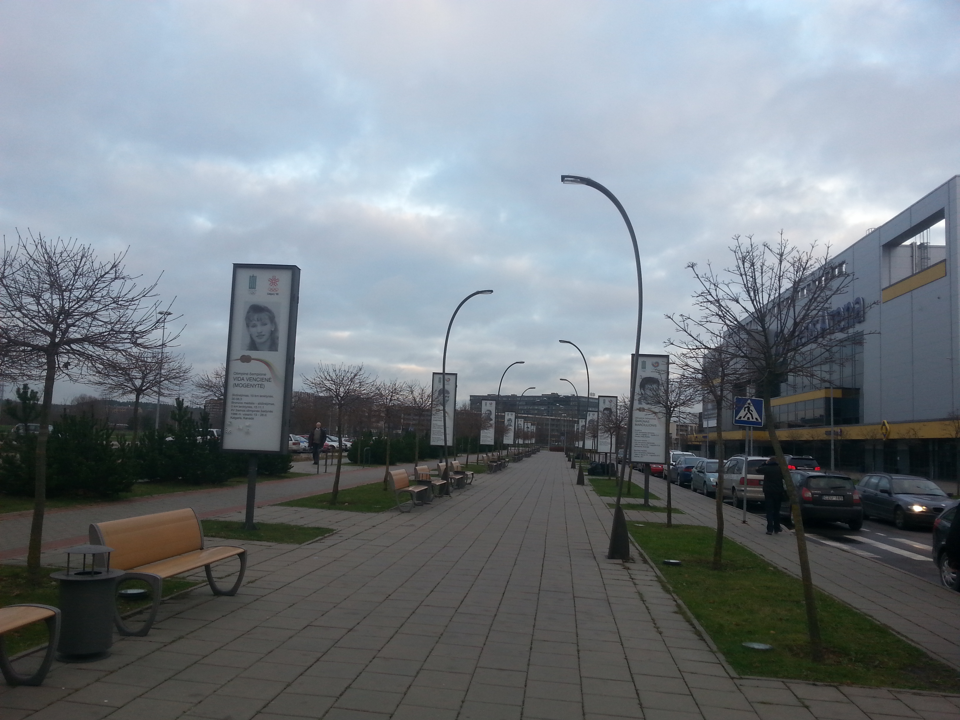 Olympic Glory Alley in Vilnius, beside the Siemens Arena.